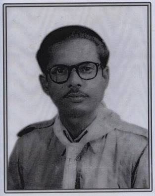 Scouter Nicholas Rozario, ALT, Silver Hilisha